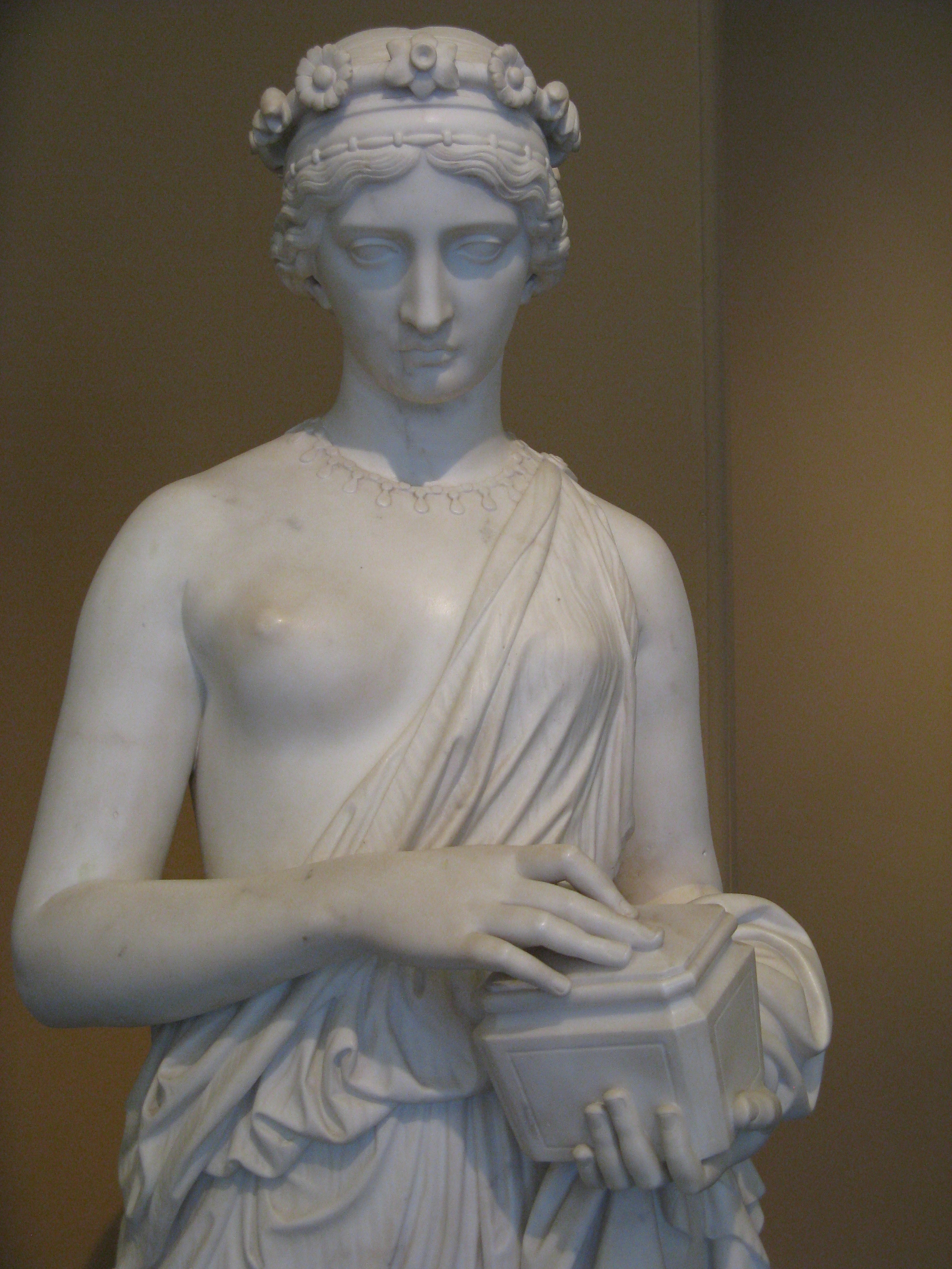 Pandora by John Gibson at Victoria and Albert Museum.